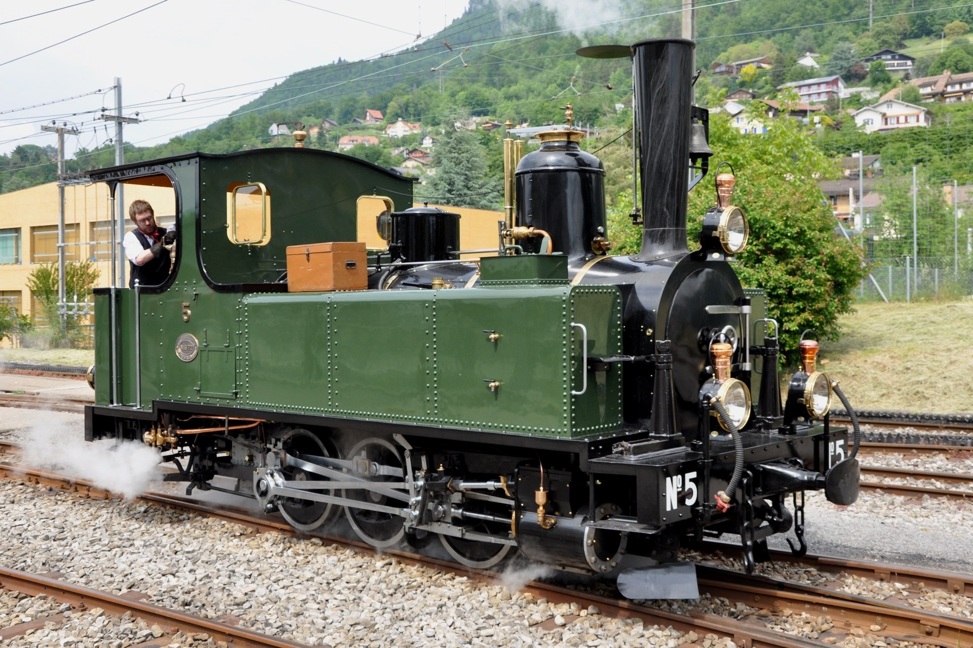 Metre gauge tank locomotive G 3/3 5 Bercher of the Lausanne–Échallens–Bercher railway (LEB) at the Blonay railway station in Switzerland.